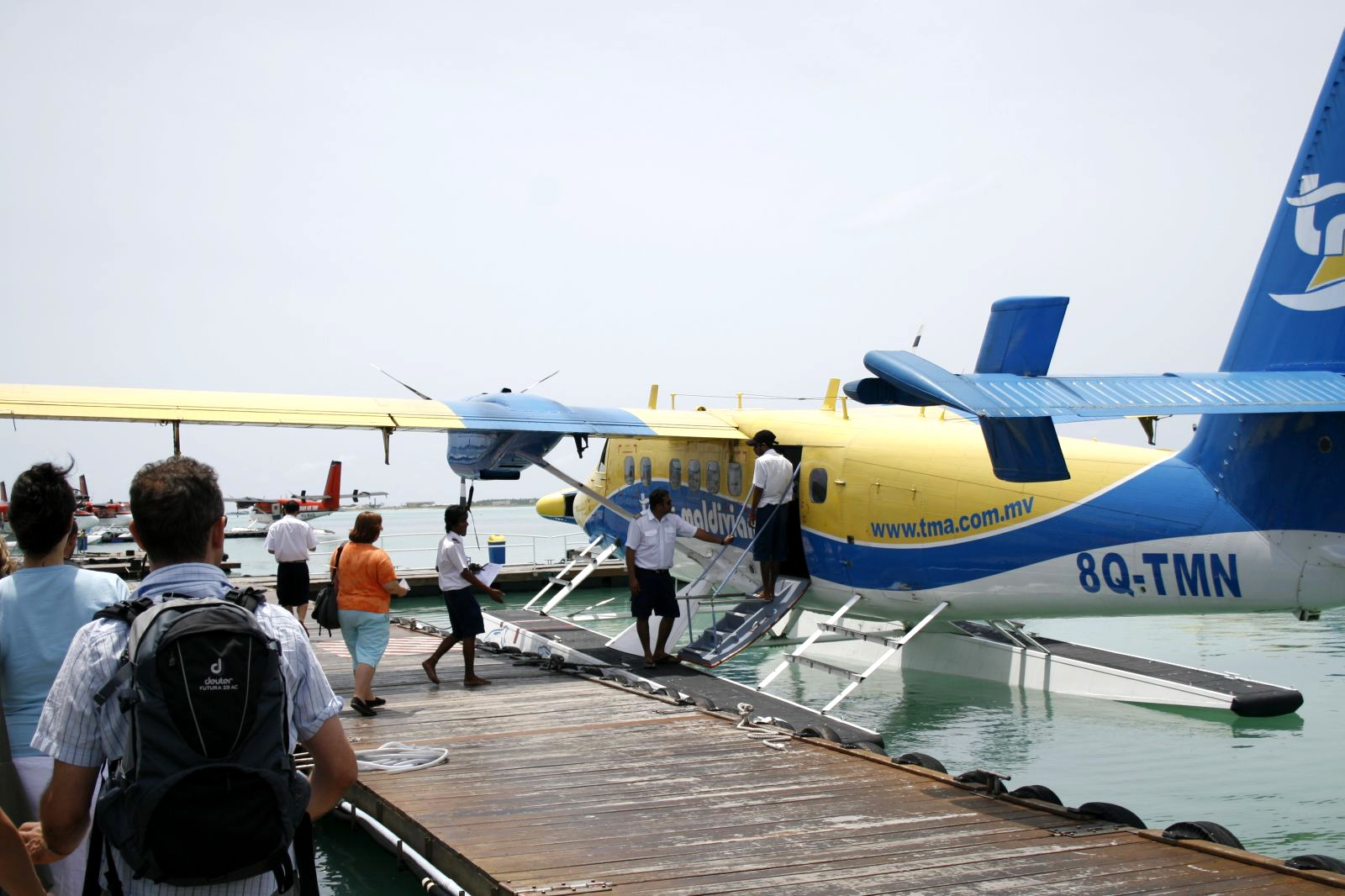 Trans Maldivian Airways plane at Malé International Airport